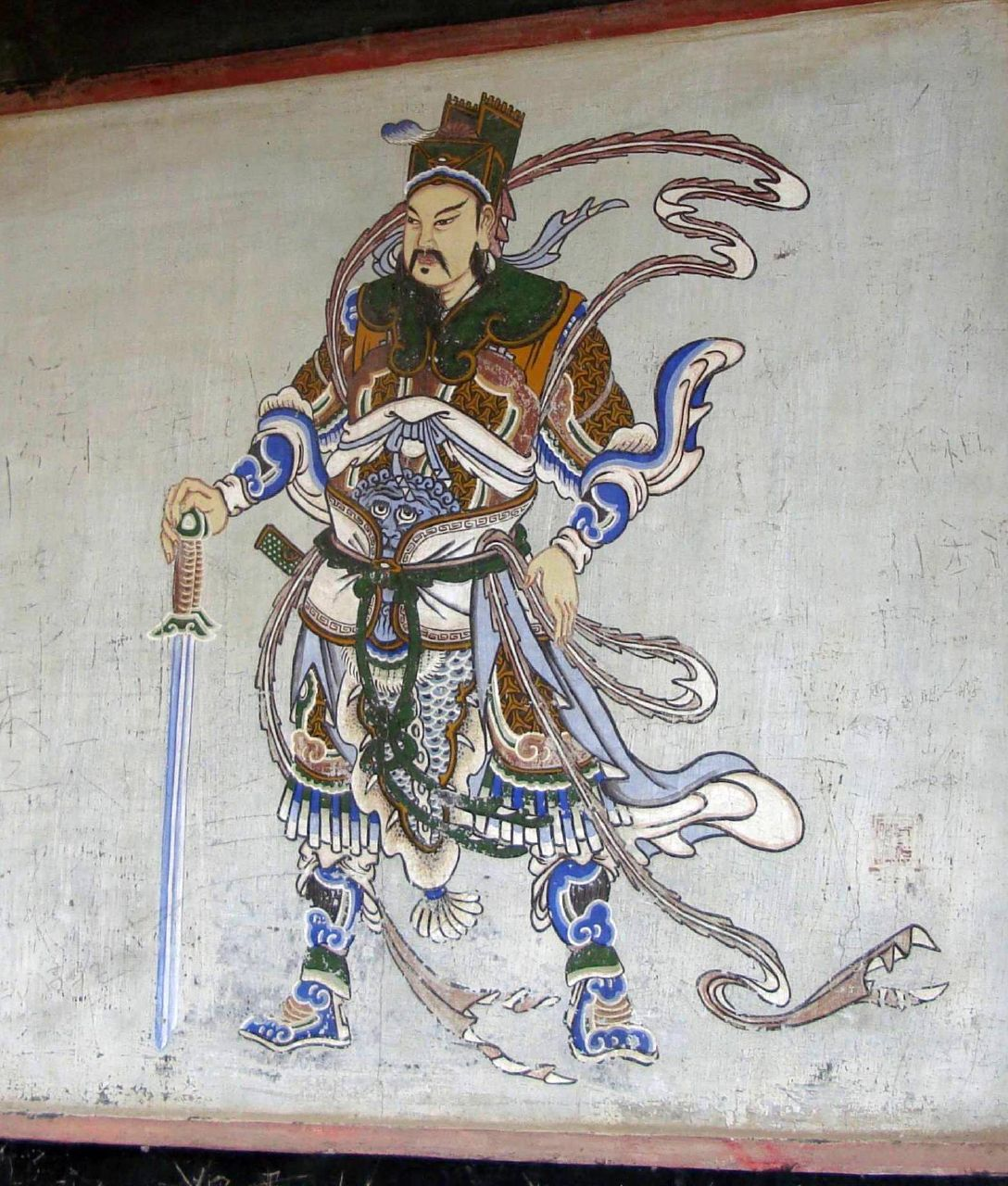 Picture of a general from a door at the Jiauguan Fort